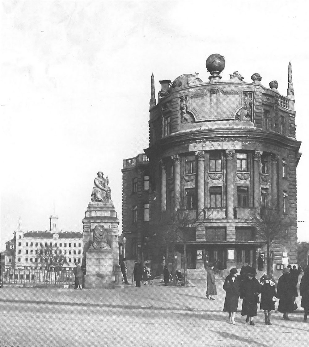 Urania in Vienna (Austria), 1910. West side main entrance.